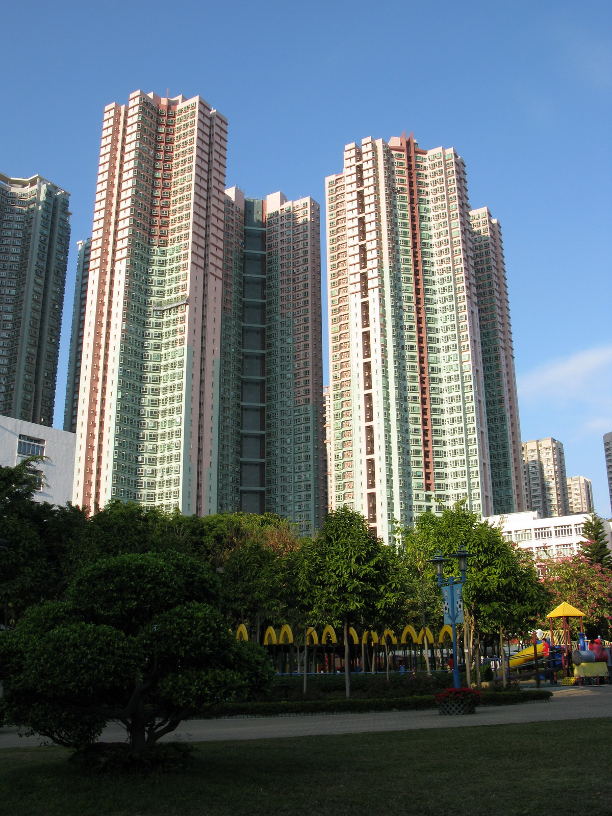 寶林 疊翠軒 The Pinnacle, Po Lam